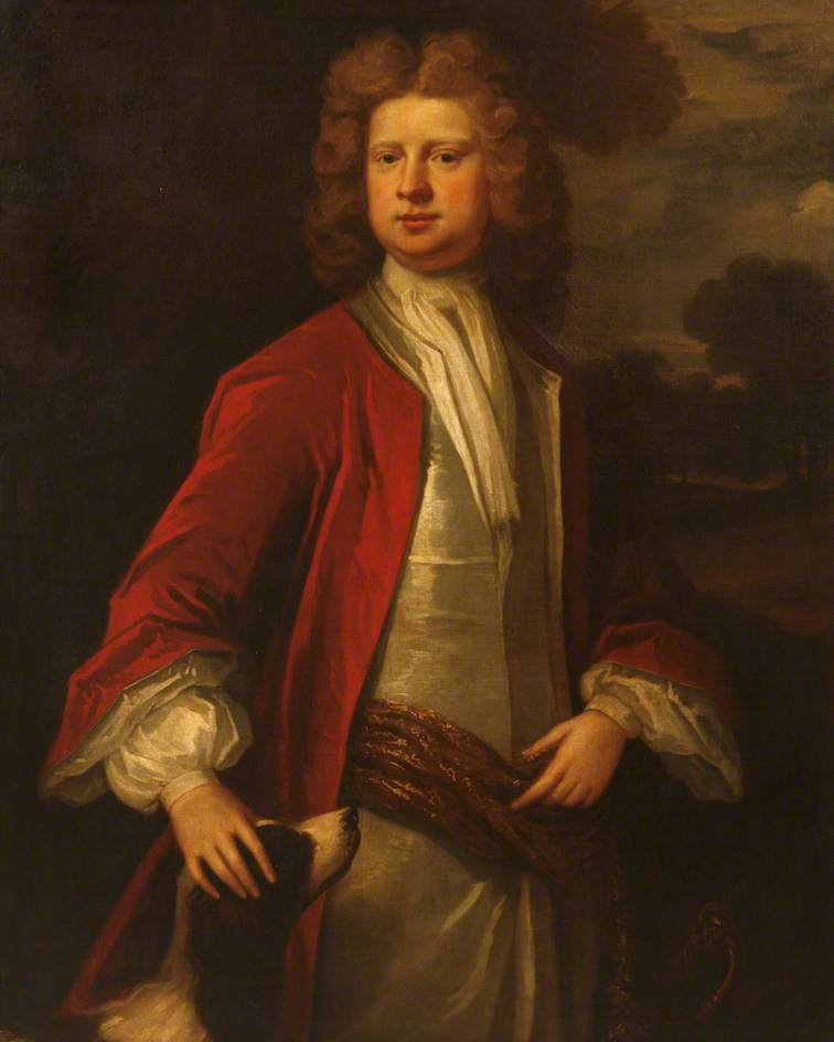 Lord Edgcumbe